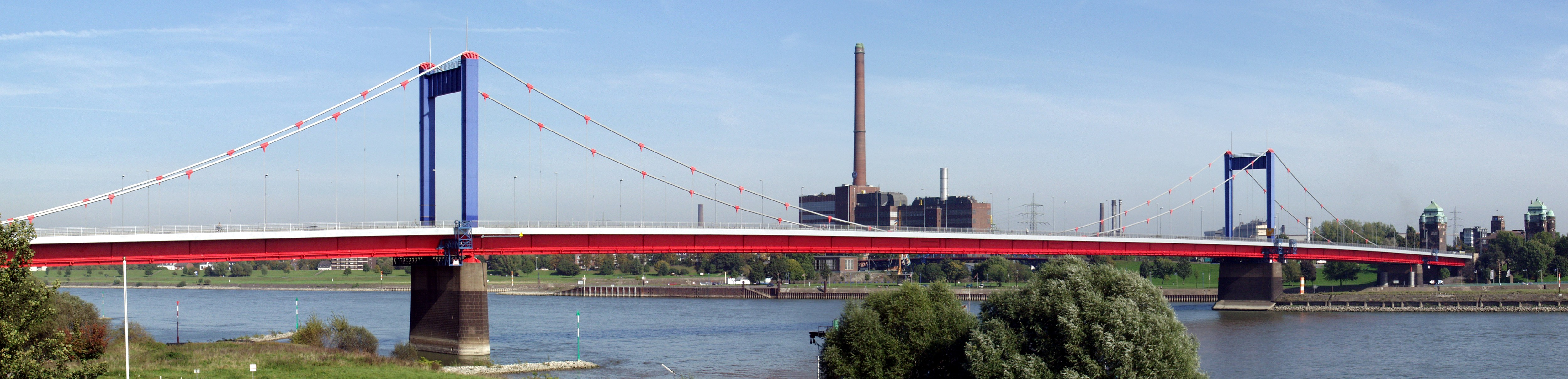 Friedrich-Ebert-Bridge over the Rhine in Duisburg, Germany.